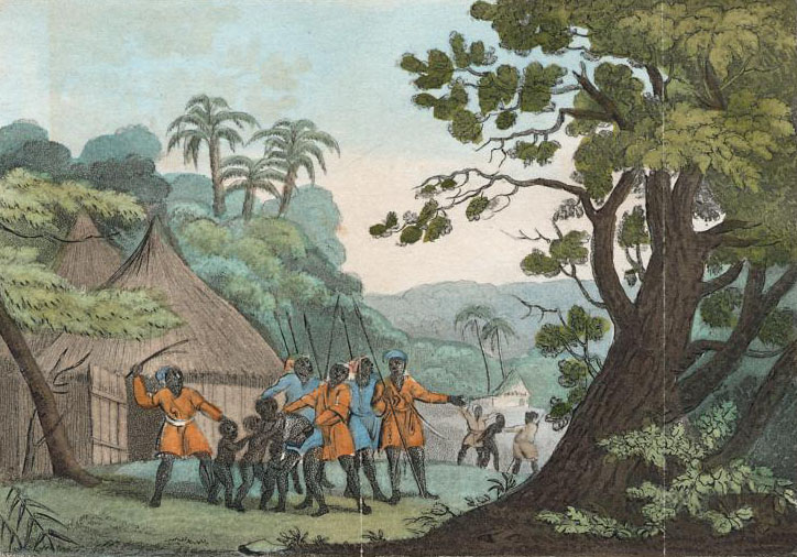 View of the village of Ben, in Cayor